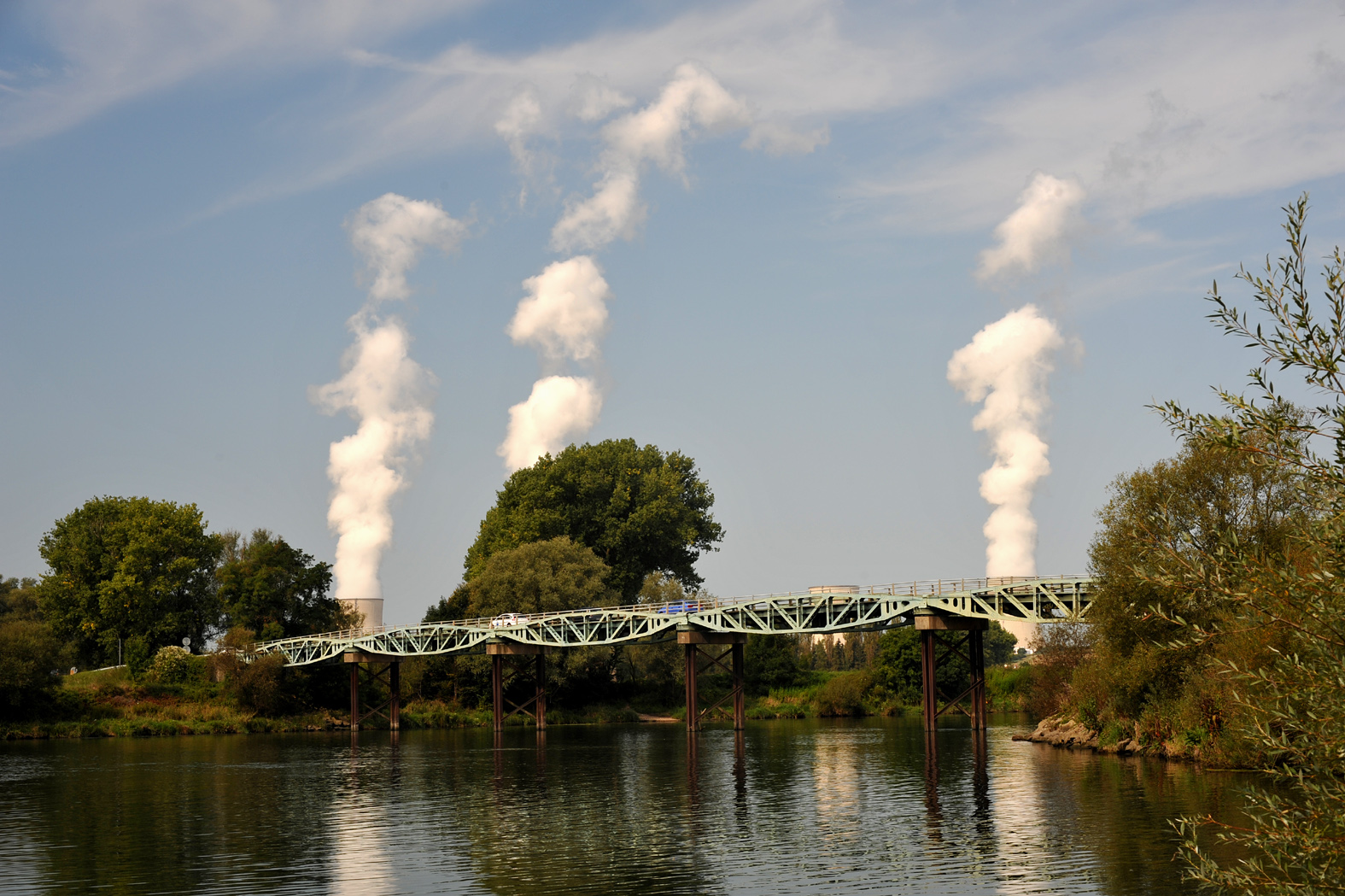 Bridge of „whale pier“ elements over the Moselle between Cattenom and Kœnigsmacker; Moselle, France.